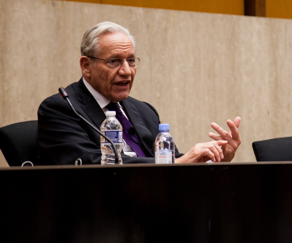 Bob Woodward meets with Edward R. Murrow participants